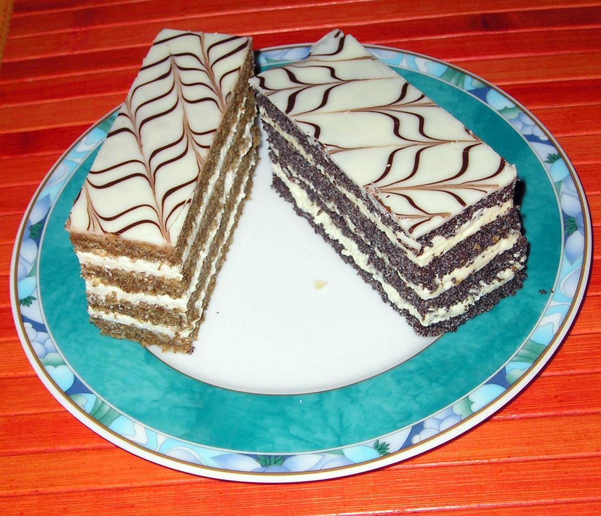 Eszterházy-torte, was made left with walnut, right with poppy seed